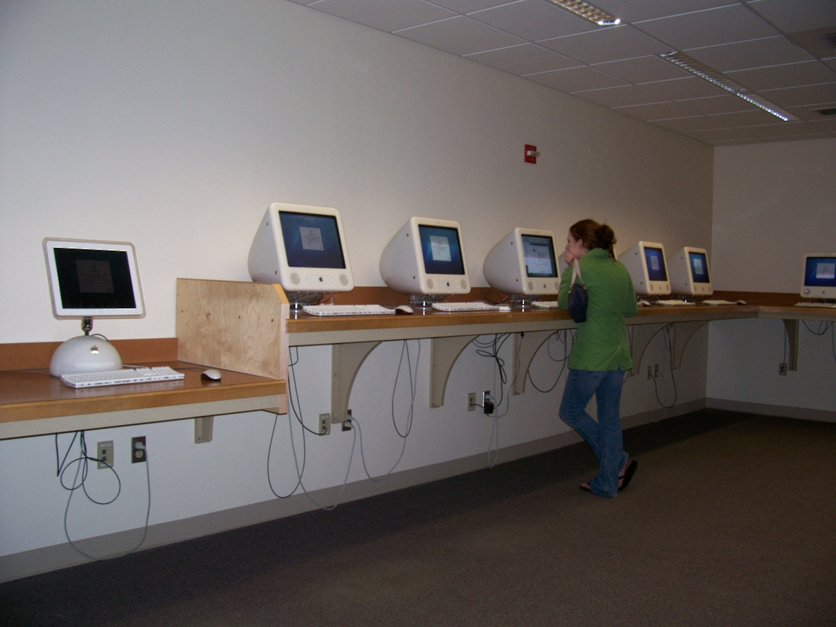 Computer cluster at the University of Maine, in Orono, Maine (USA)